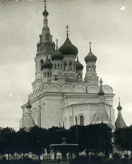 St. Sophia Cathedral in Grodno (1899-1920)